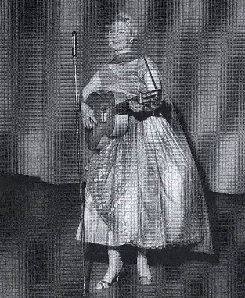 Maynie Siren finnish singer